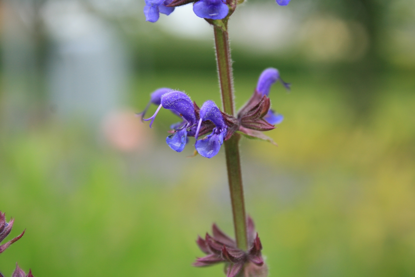 Salvia nemorosa: Flower